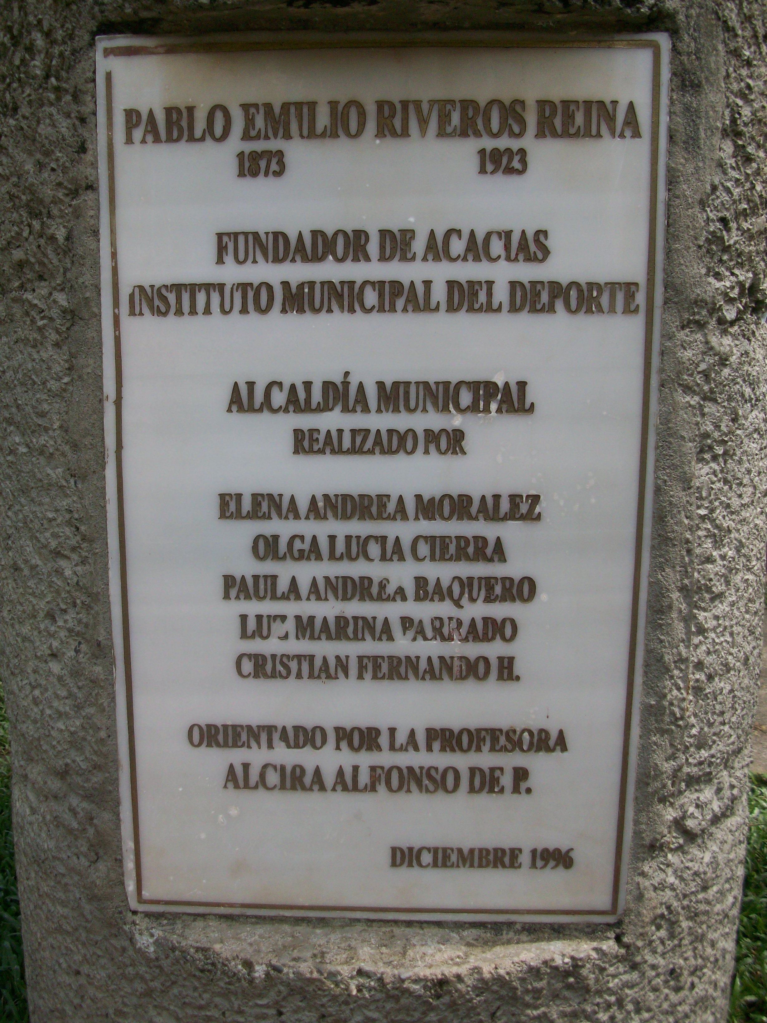 Parque Central Acacías-Meta (Colombia)